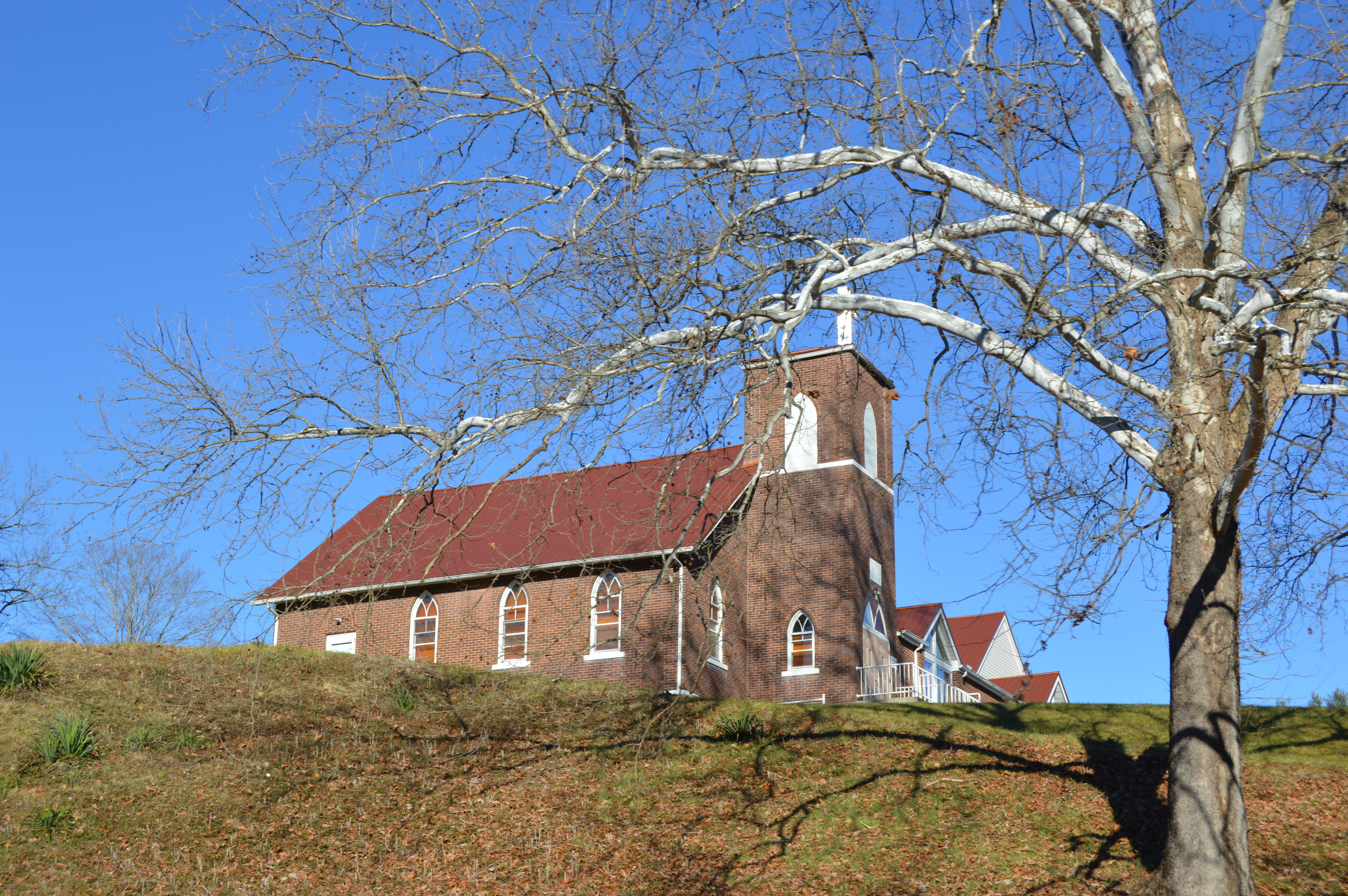 Western side and front of the New Hope United Methodist Church, located at 9825 Gore Church Road (facing State Route 93) at Gore in Gore Township, Hocking County, Ohio, United States.